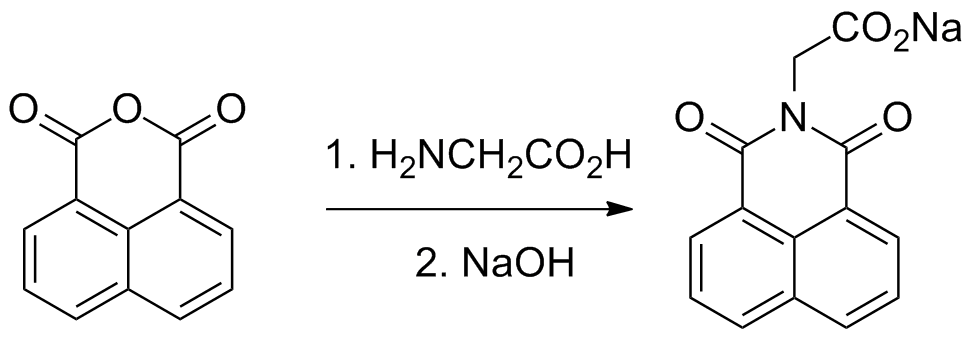 US 3,821,383.